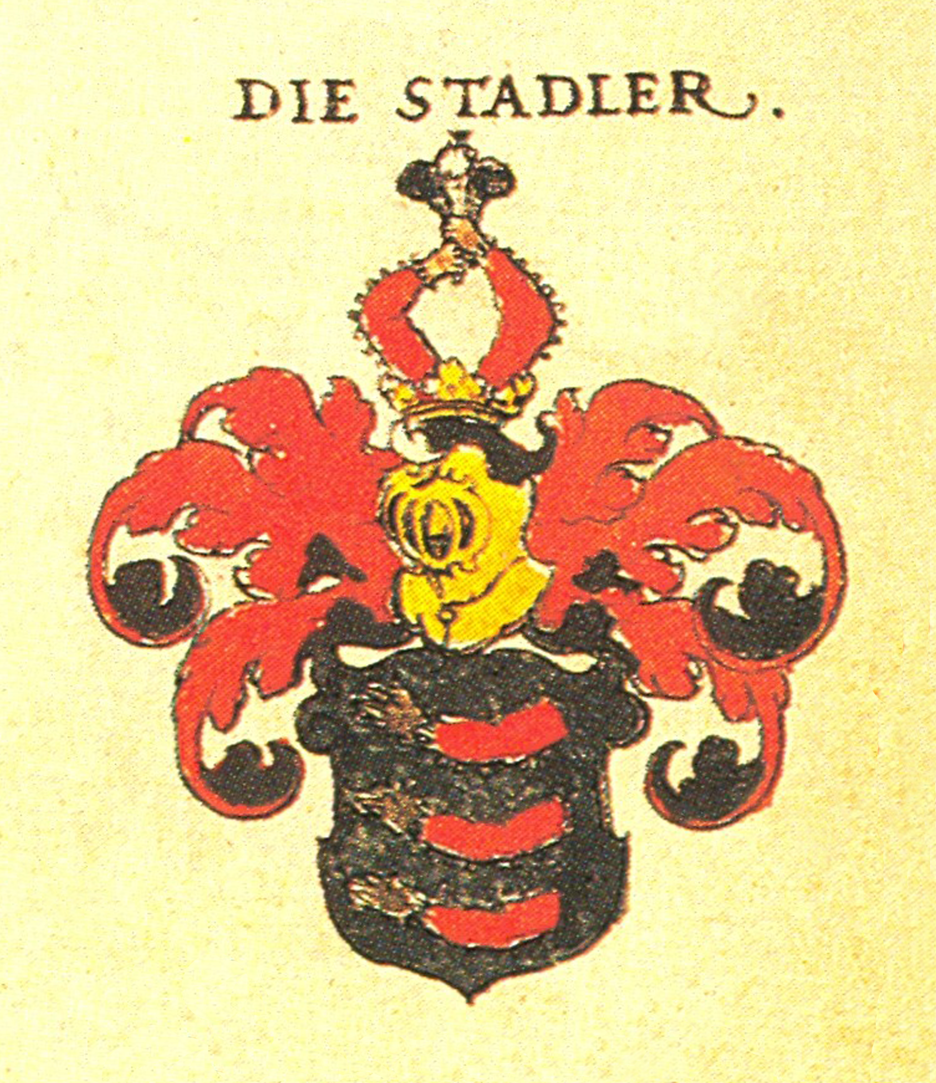 Coat of arms of Stadel (Stadler)